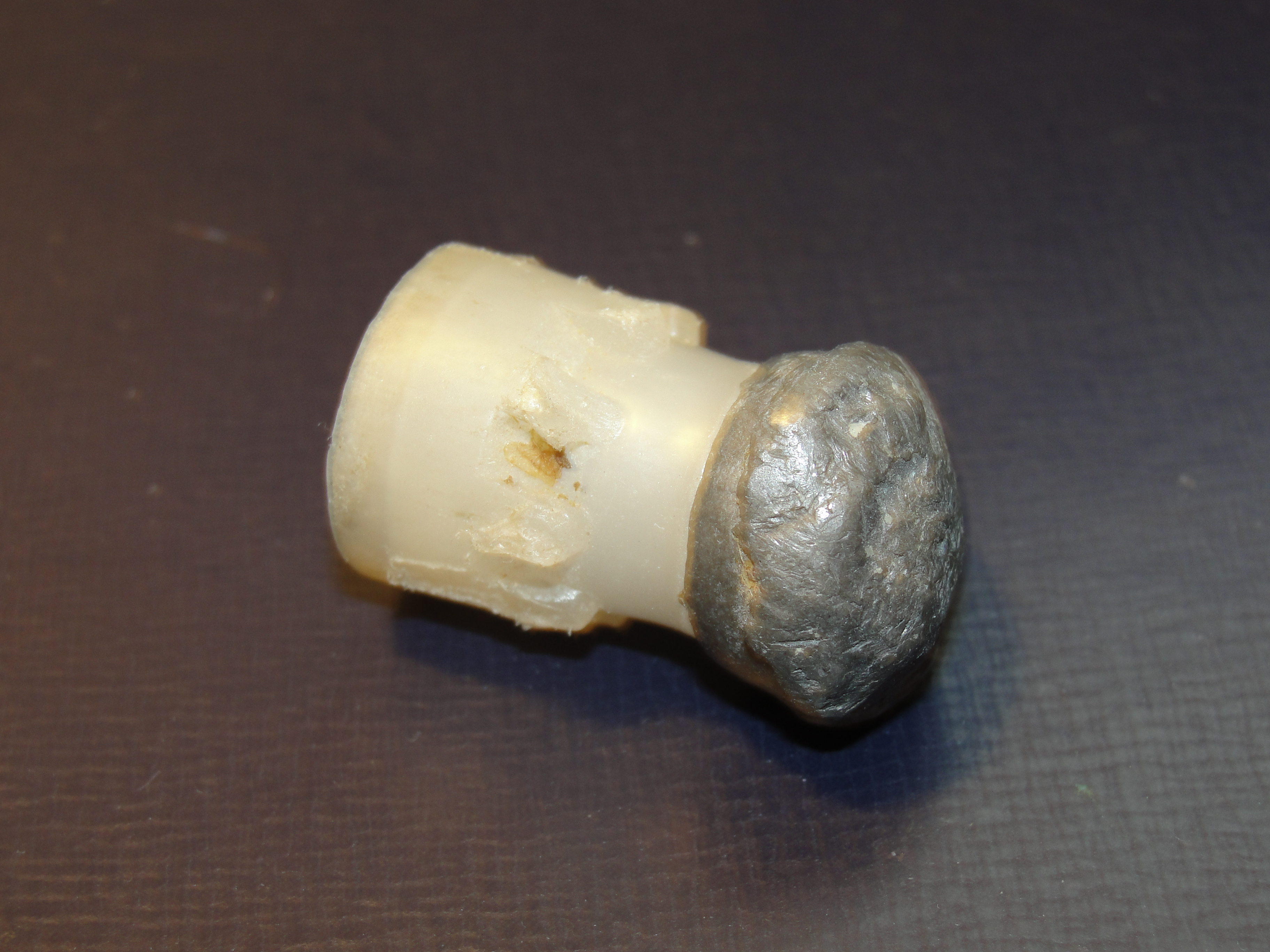 16th bore Poleva slug (Russia), deformed after hitting a moose